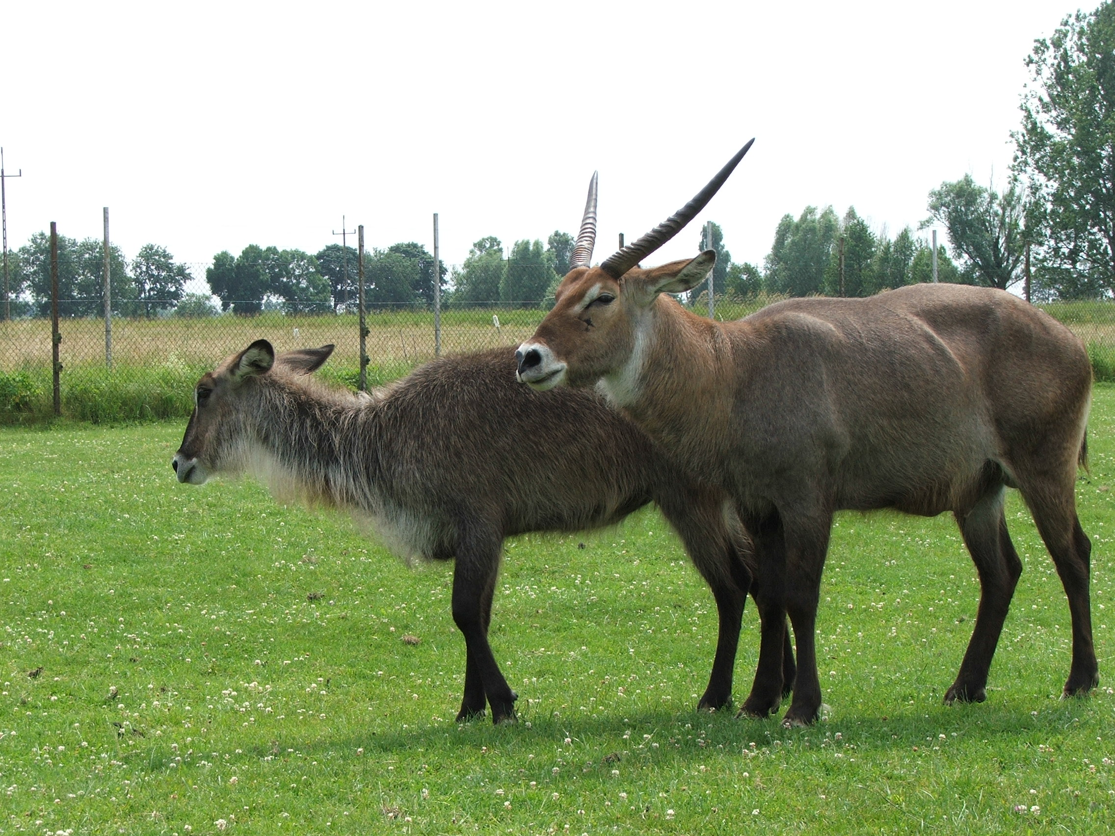 Kobus ellipsiprymnus defassa, Zoo Safari in Świerkocin, Poland